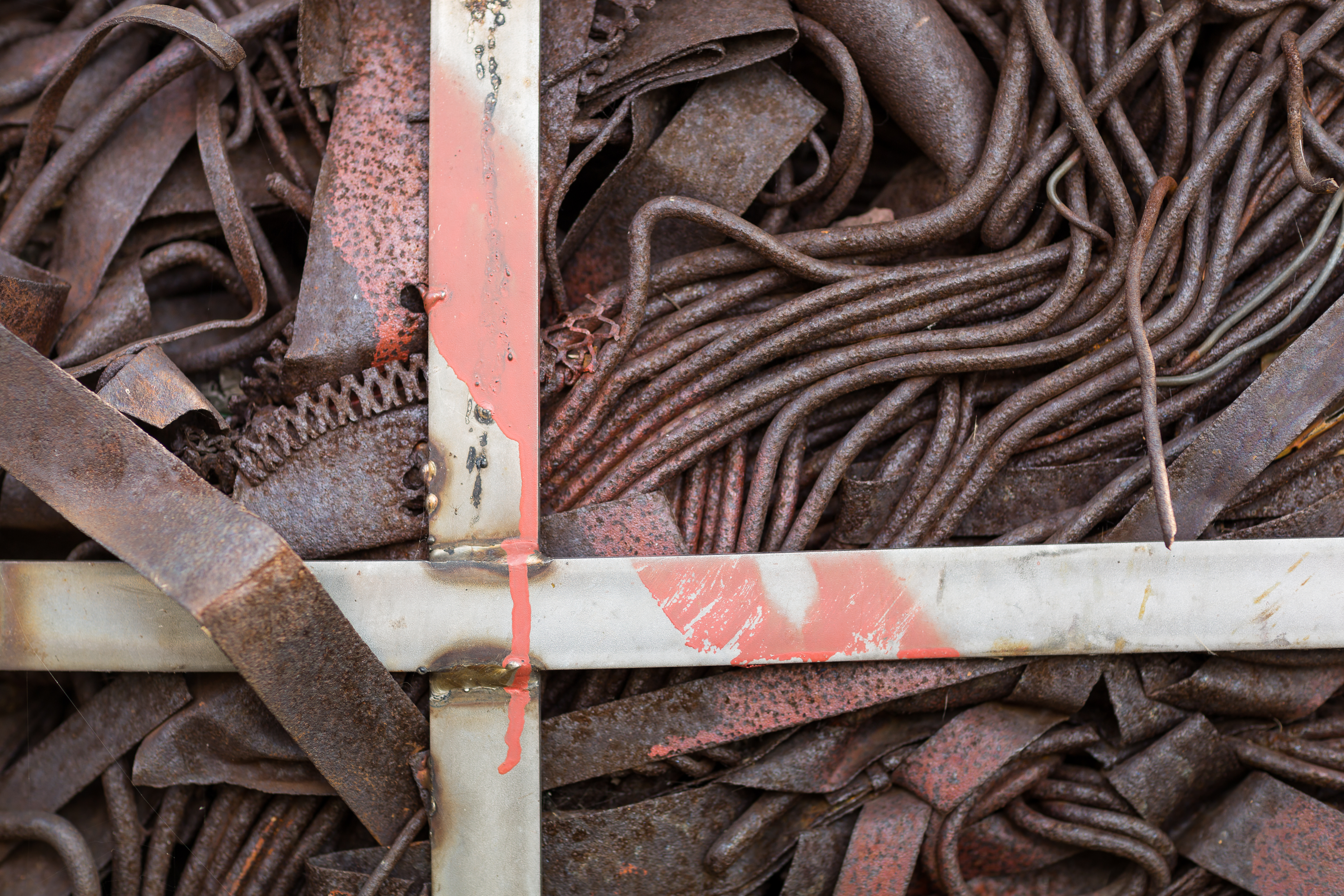 Sculpture "Leineentruempelung" by János Nàdasdy (*1939) located at Am Hohen Ufer in Hanover, Germany.